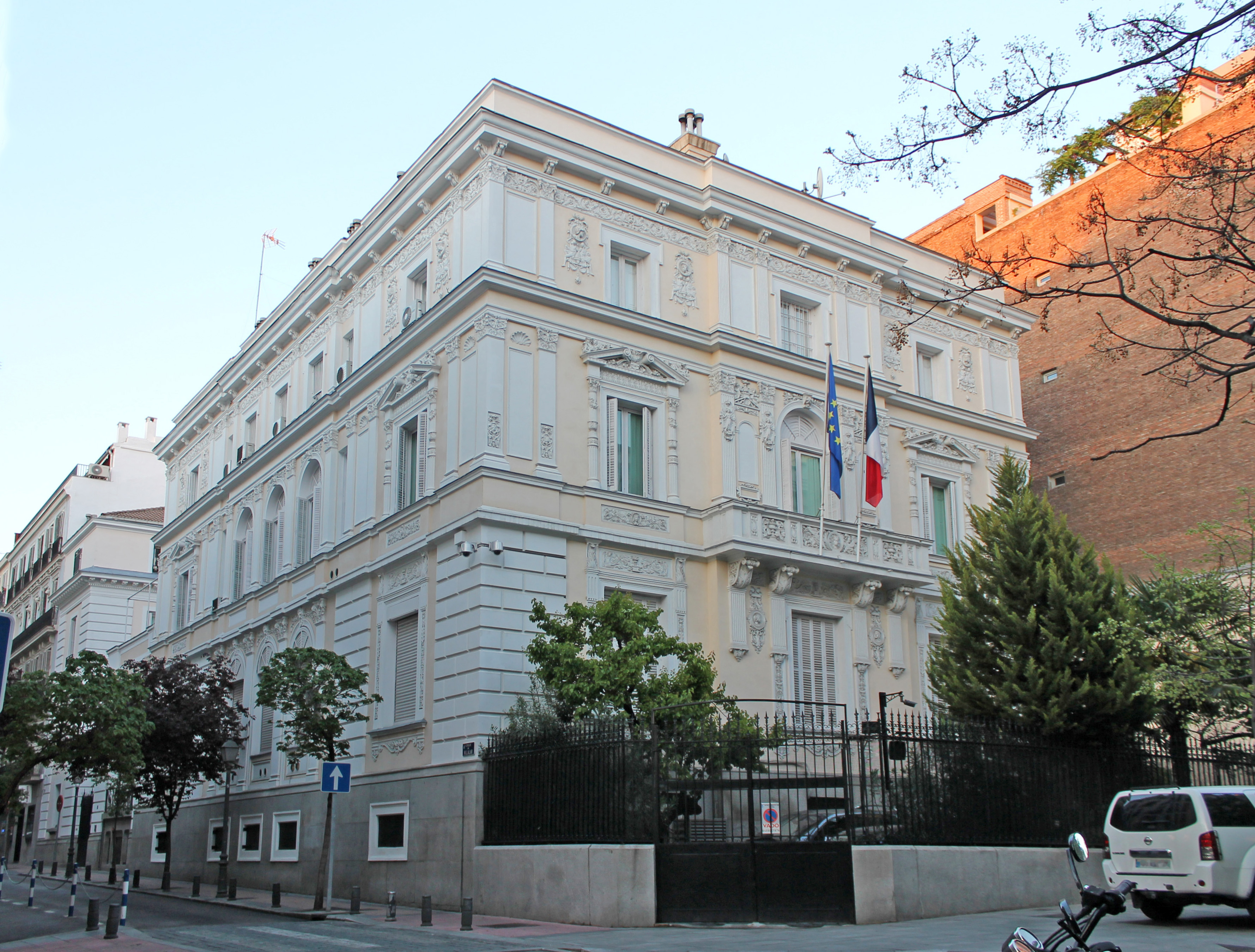 View of the French Embassy in Madrid (Spain).